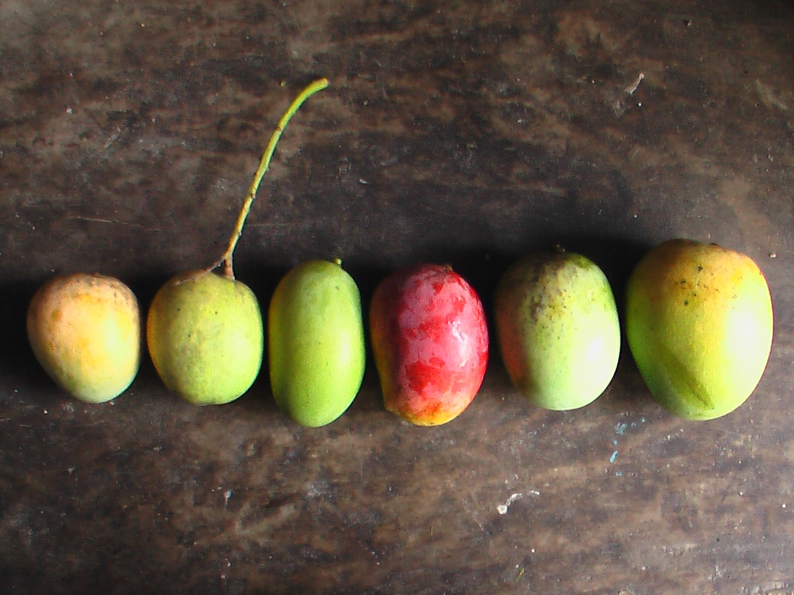 Mango farm, Mathurapur - Shivnarayanpur, district Bhagalpur, Bihar, India